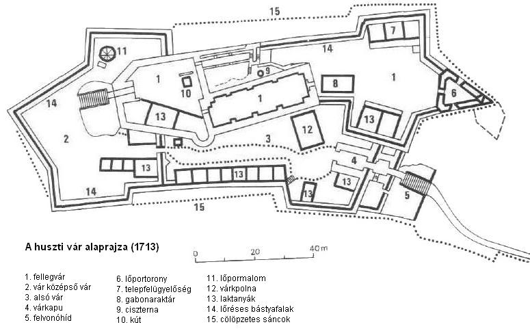 plan Khust castle (1713)